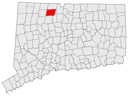 Locator map for Barkhamsted, Connecticut